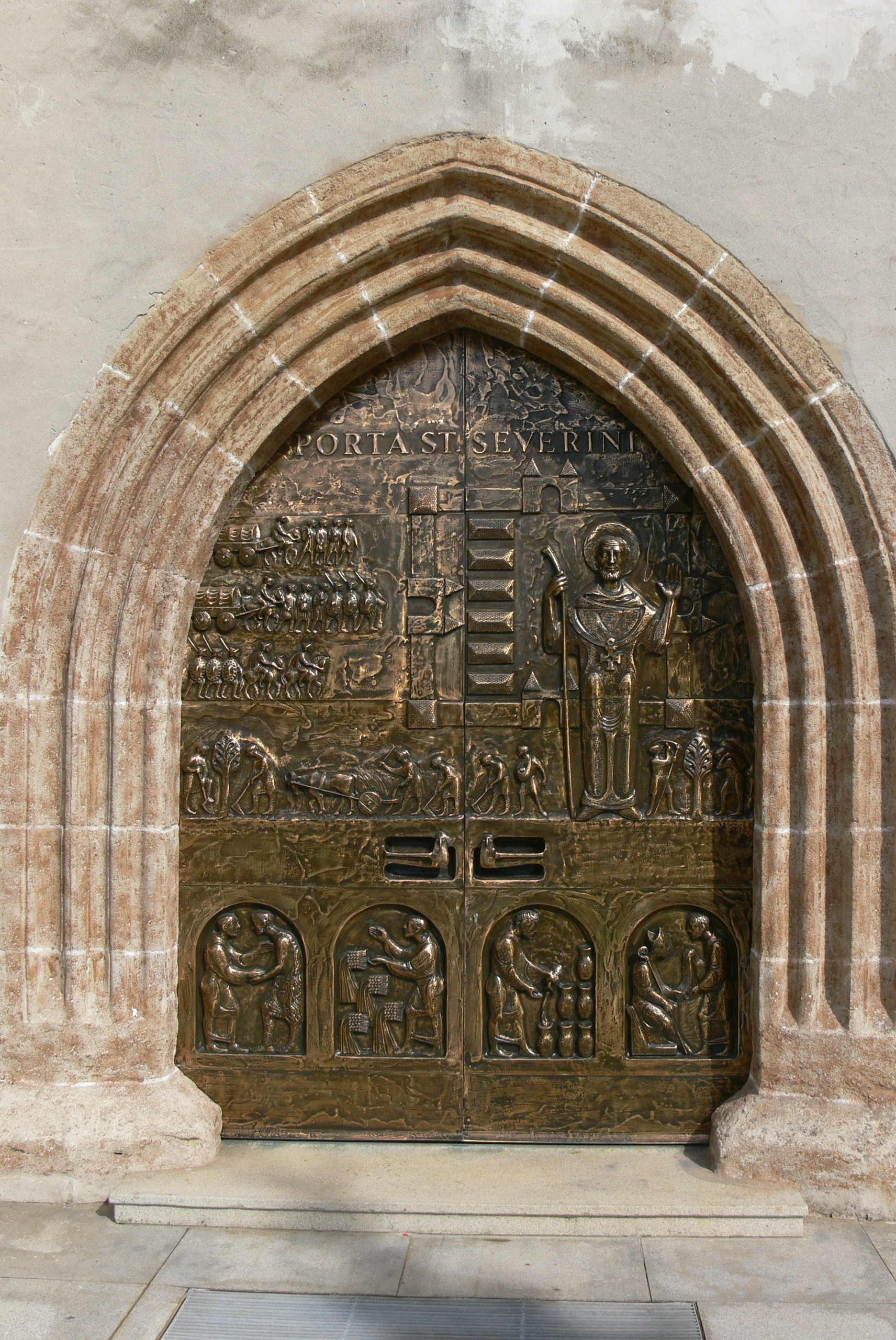 Lorch ( Enns/Upper Austria ). Basilica of Saint Lawrence: Saint Severin gate ( 1971 ) by Peter Dimmel showing scenes of the life of Saint Severin.